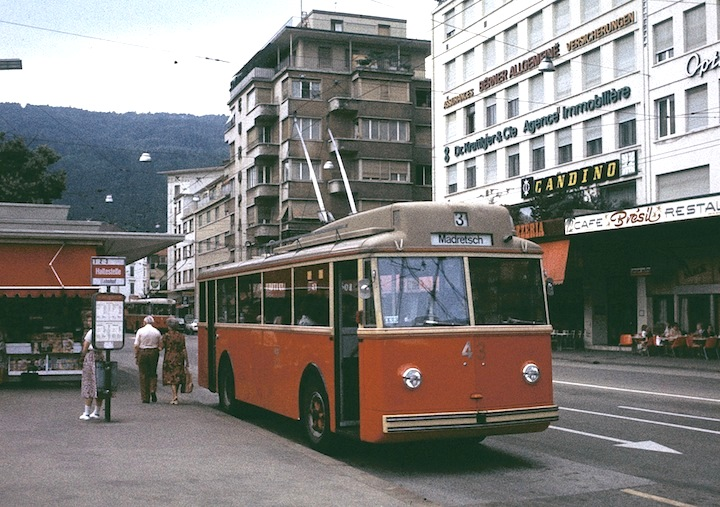 Biel, Switzerland trolleybus 43, built in 1951 by Berna, at the stop in front of the main railway station, in 1979.